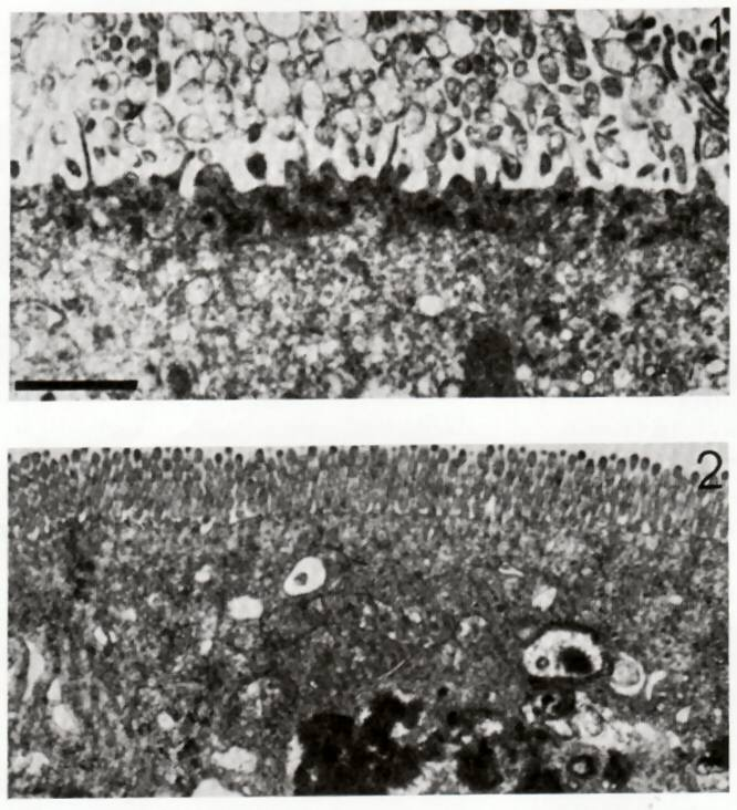 Transmission electron micrograph of an enterocyte 3 days after infection by rotavirus (top). The microvilli have been destroyed. An unifected enterocyte is shown for comparison at the bottom. The bar = approx 500 nm